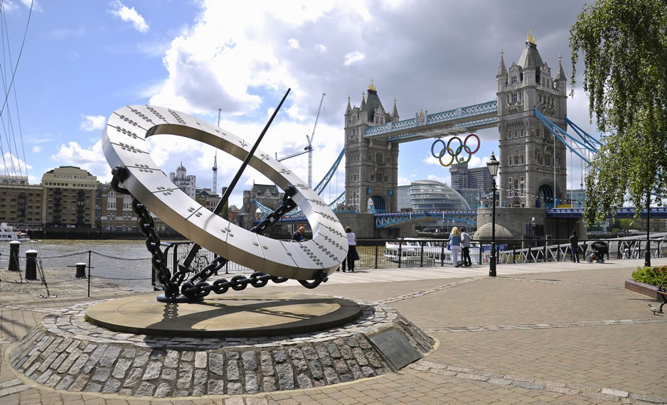 The Tower Bridge with the Olympic Rings unveiled